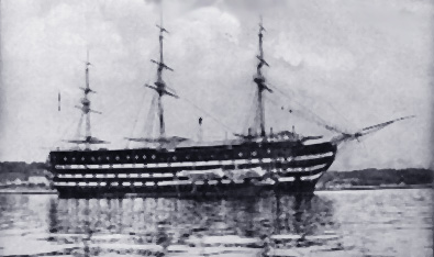 Borda